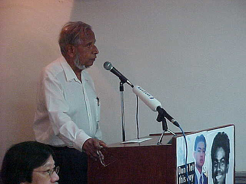 Joshua Benjamin Jeyaretnam speaking at a "Night of Solidarity" forum against capital punishment in Singapore.